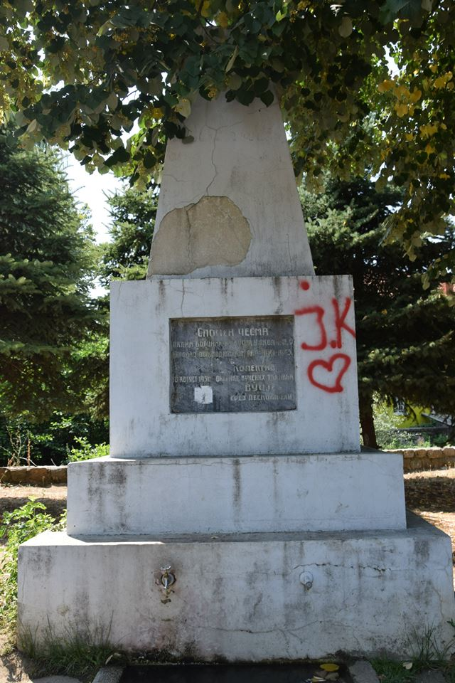 Спомен чесма Вучје